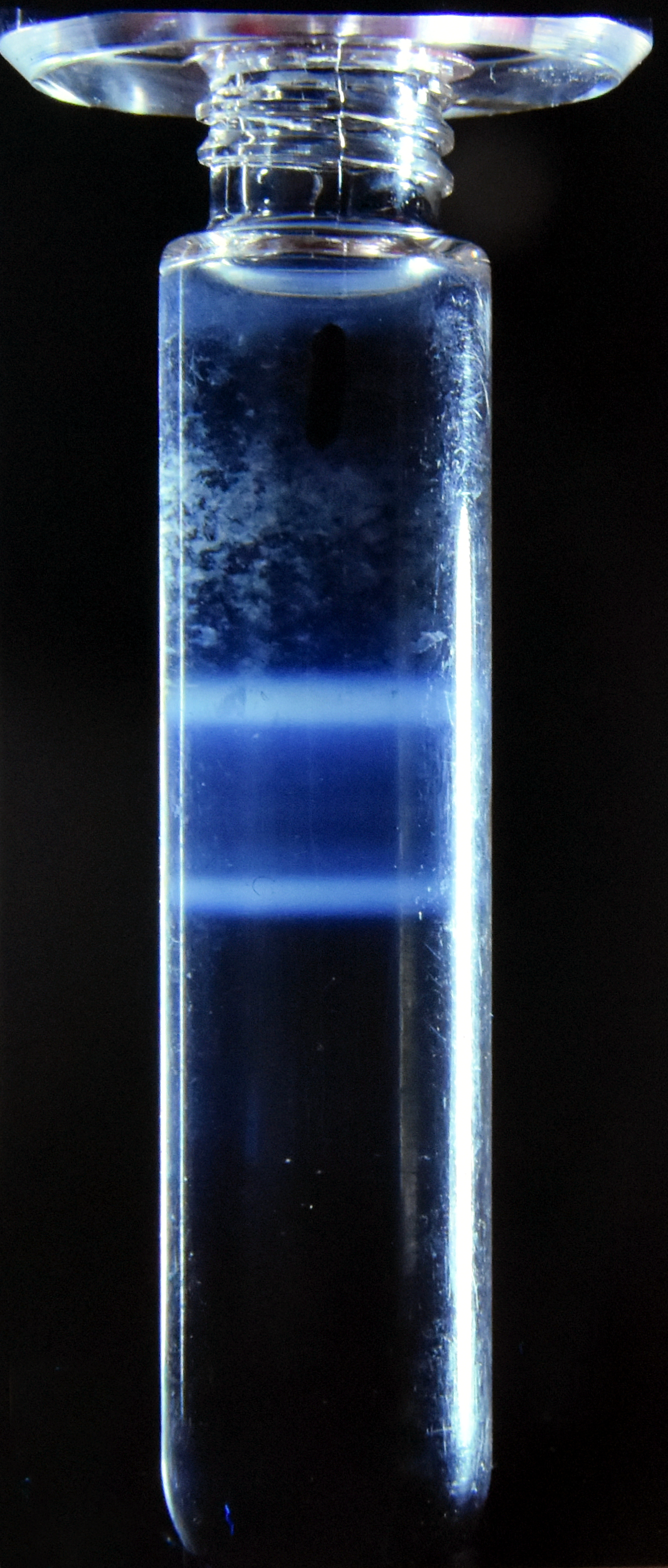 A 6cm polystyrene tube containing caesium chloride (CsCl) solution and two morphological types of rotavirus. Following centrifugation at 100g a density gradient forms in the CsCl solution and the the virus particle separate according to their densities.